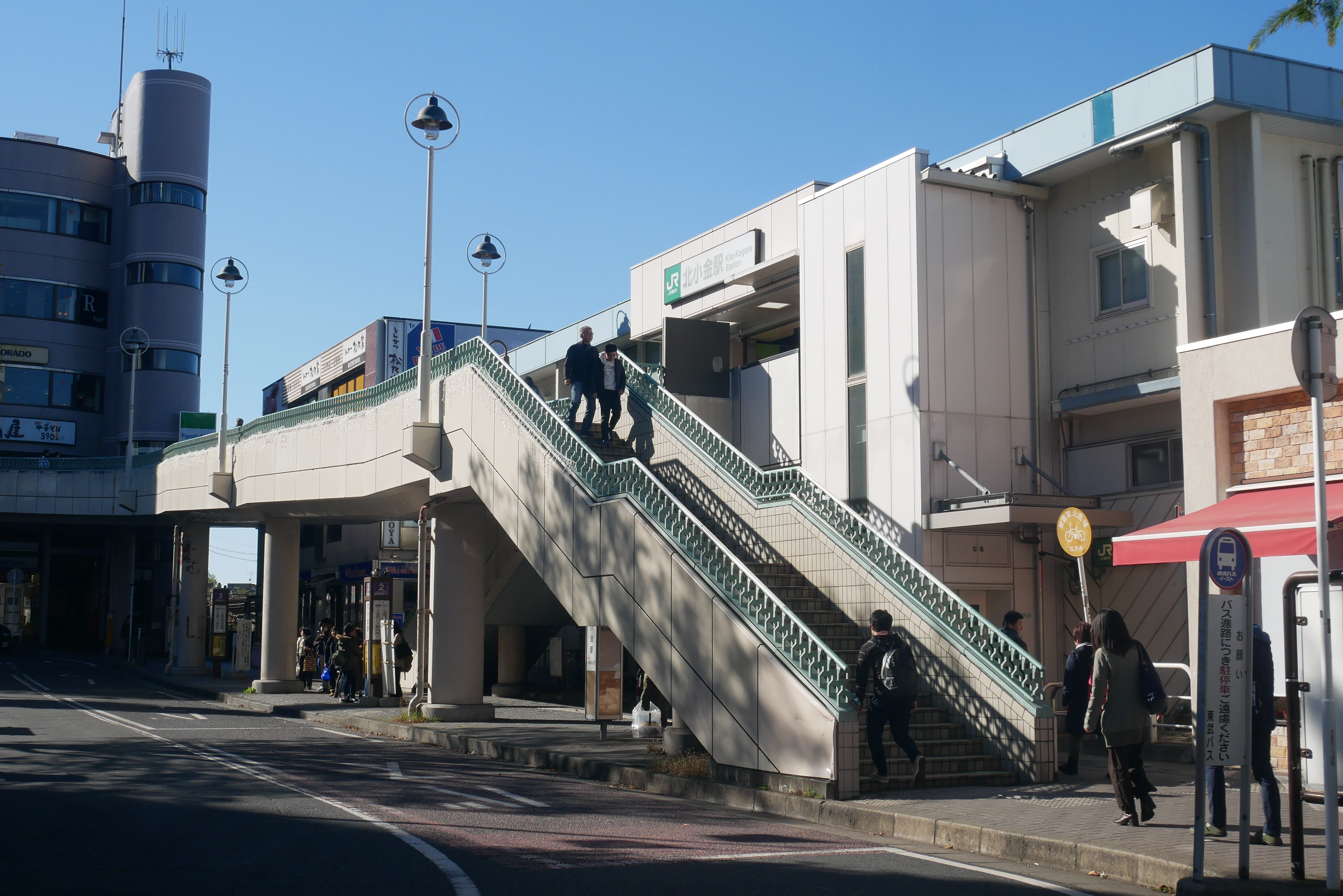 北小金駅の南口 (Kita-Kogane Station south exit) Panasonic Lumix DMC-GX7 Mark II